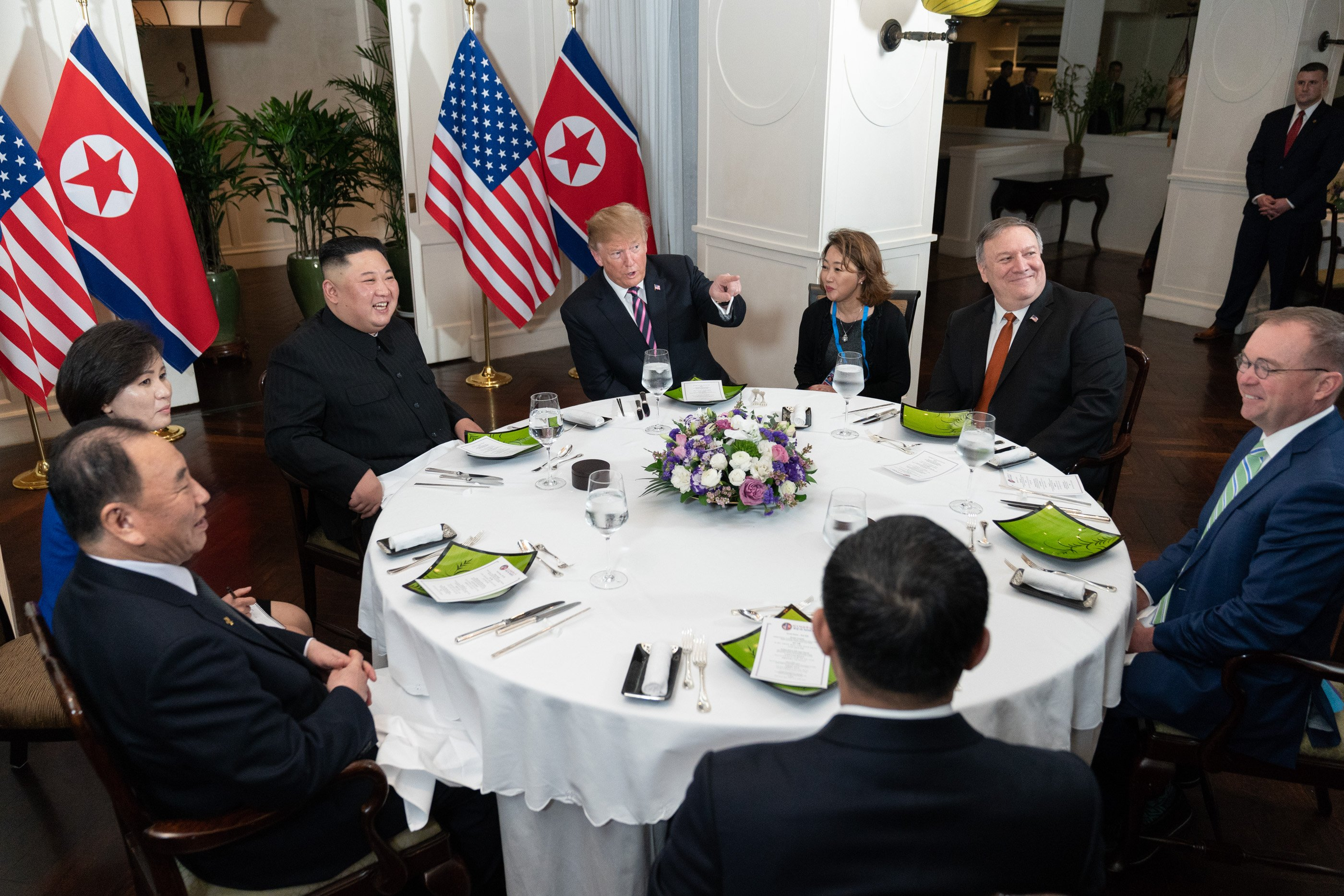 Happening Now: President Donald J. Trump and Chairman Kim Jong Un at dinner in Hanoi.